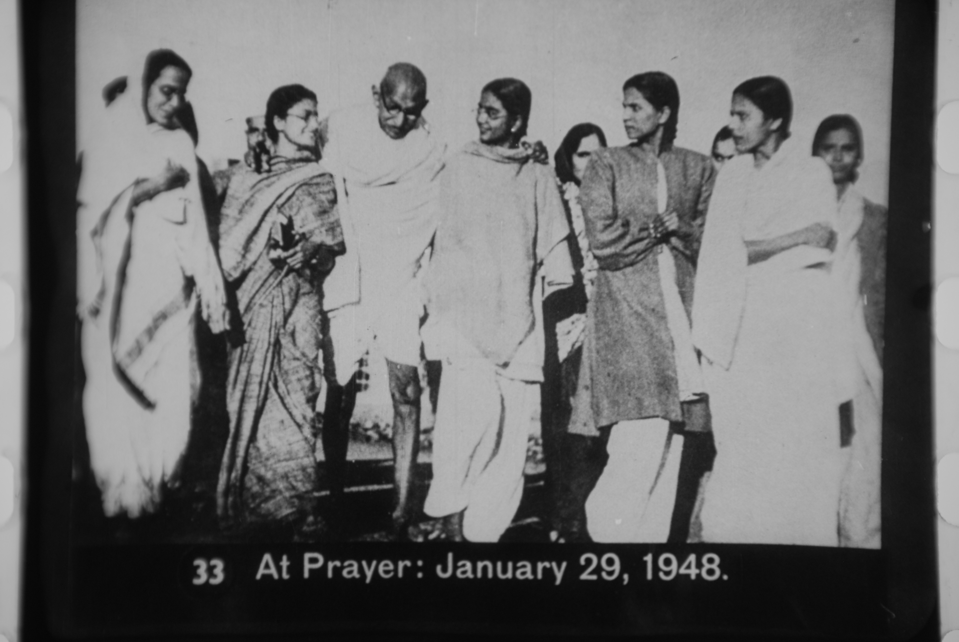 Gandhi going to prayer ground, Delhi, 29 January 1948.